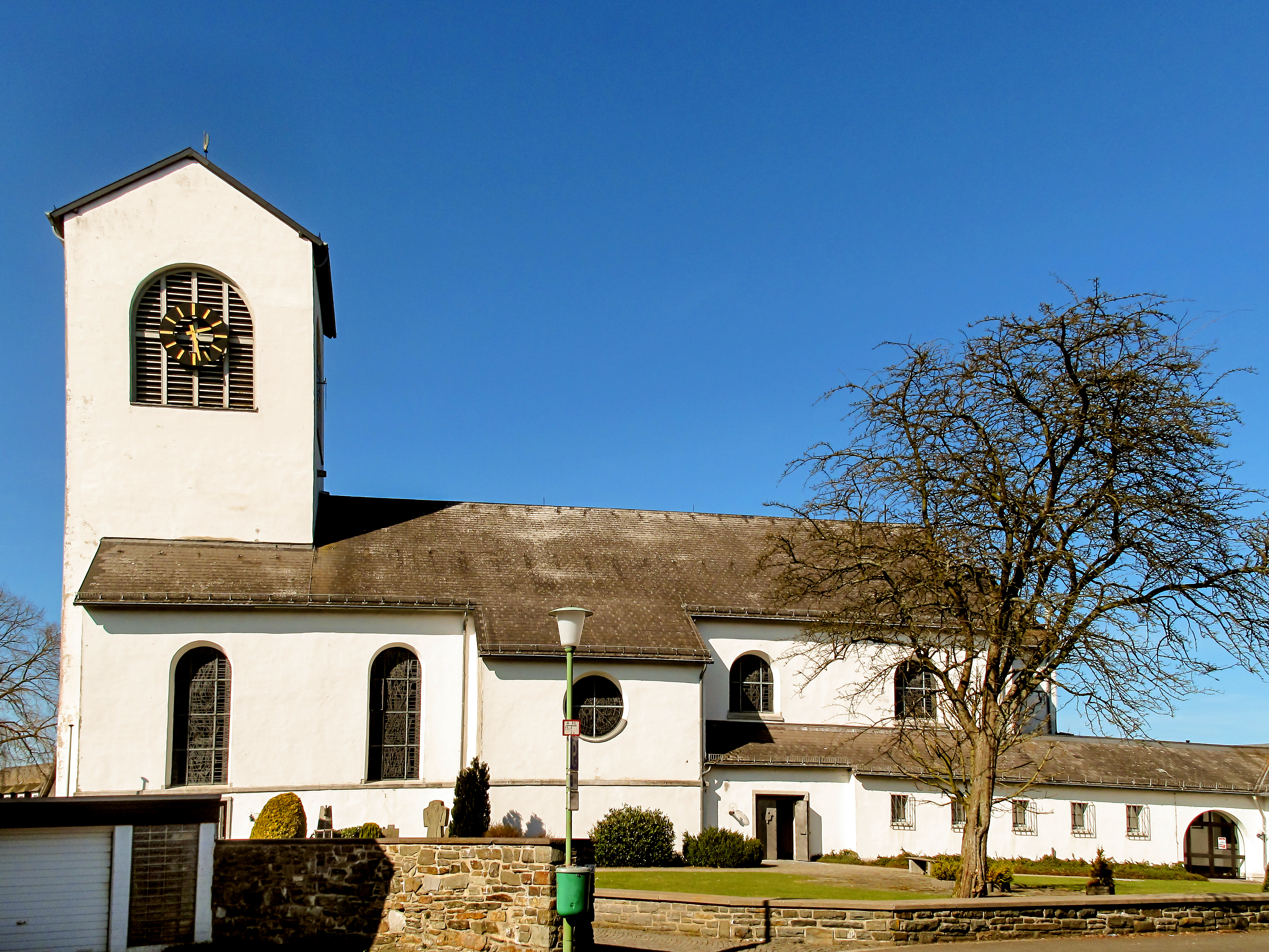 Simmerath, church